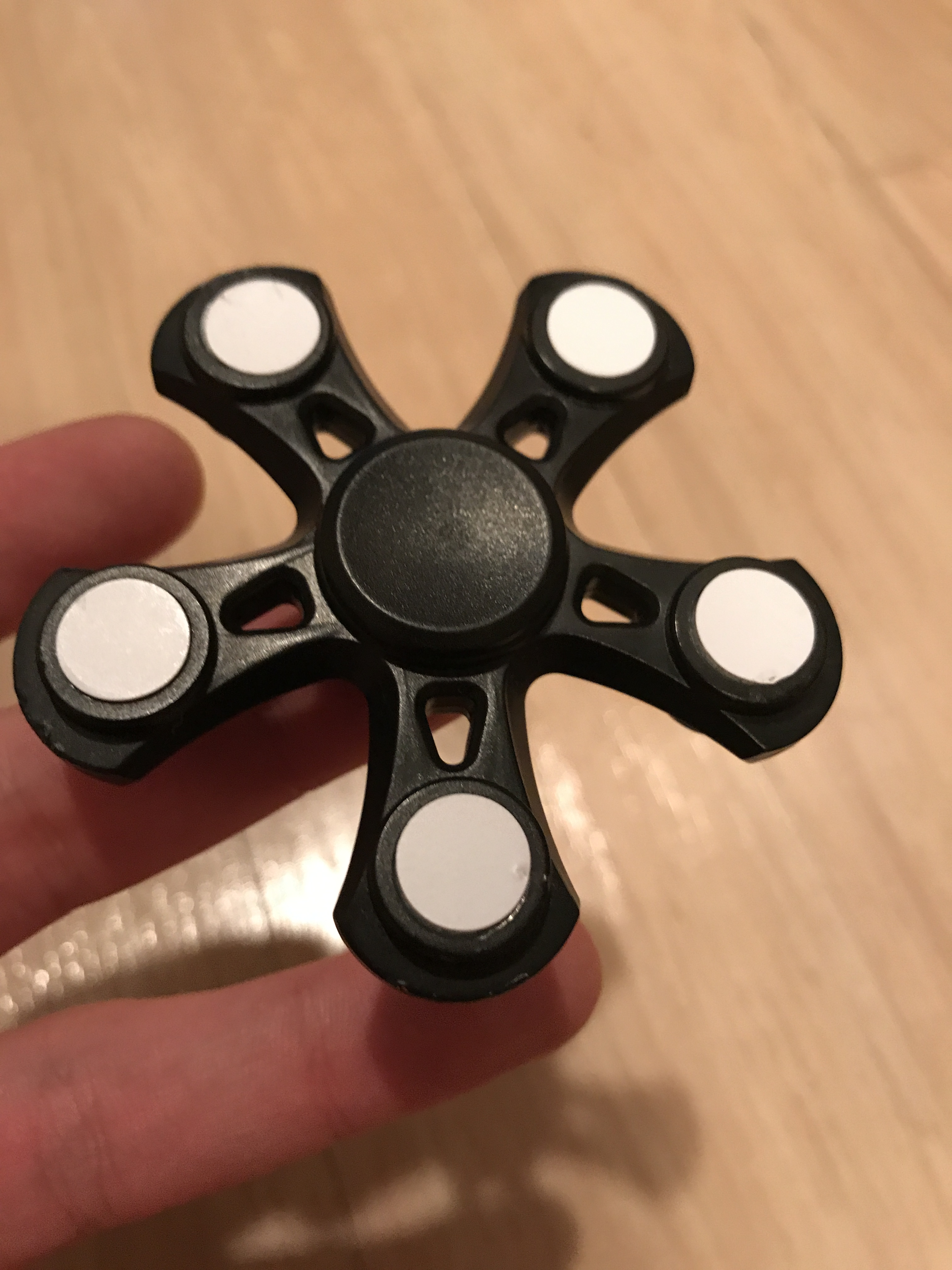 pentagon fidget spinner